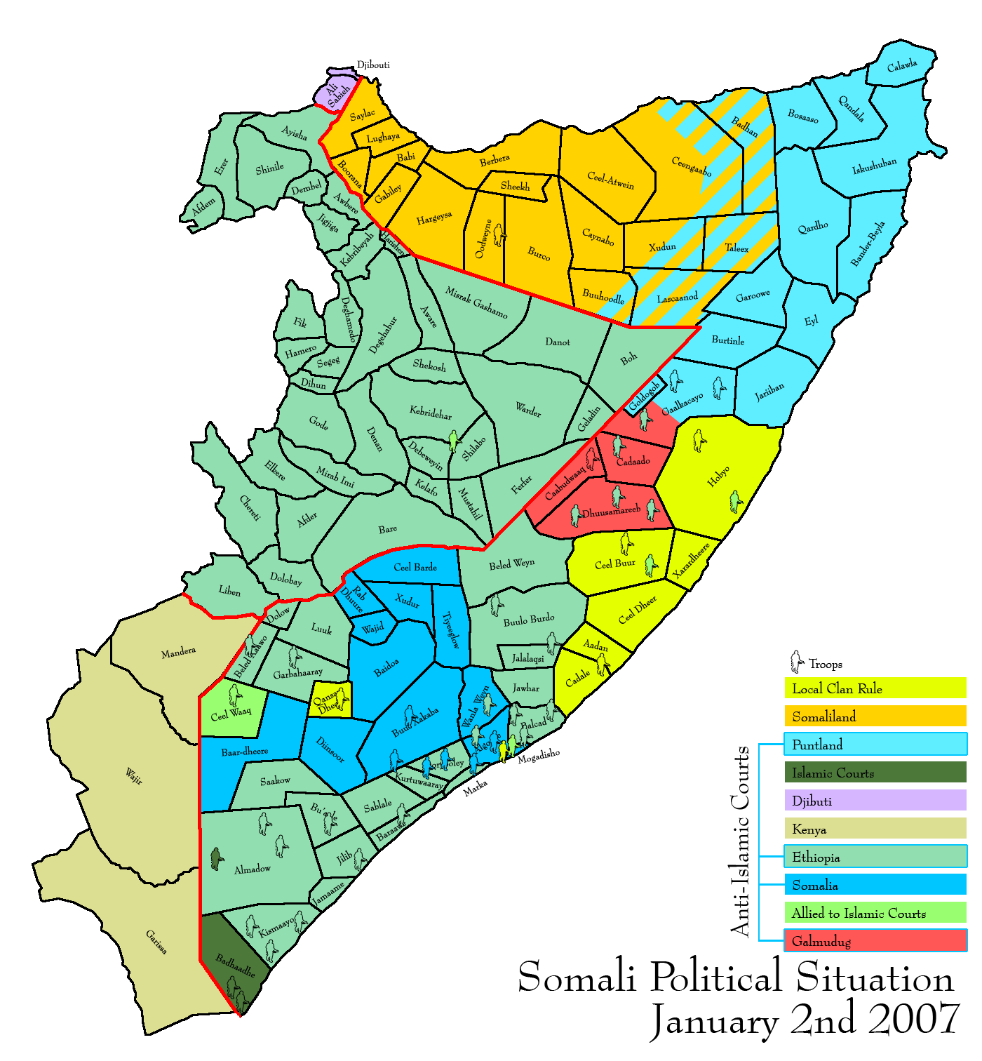 Political Situation in Somalia as of January 2nd 2007